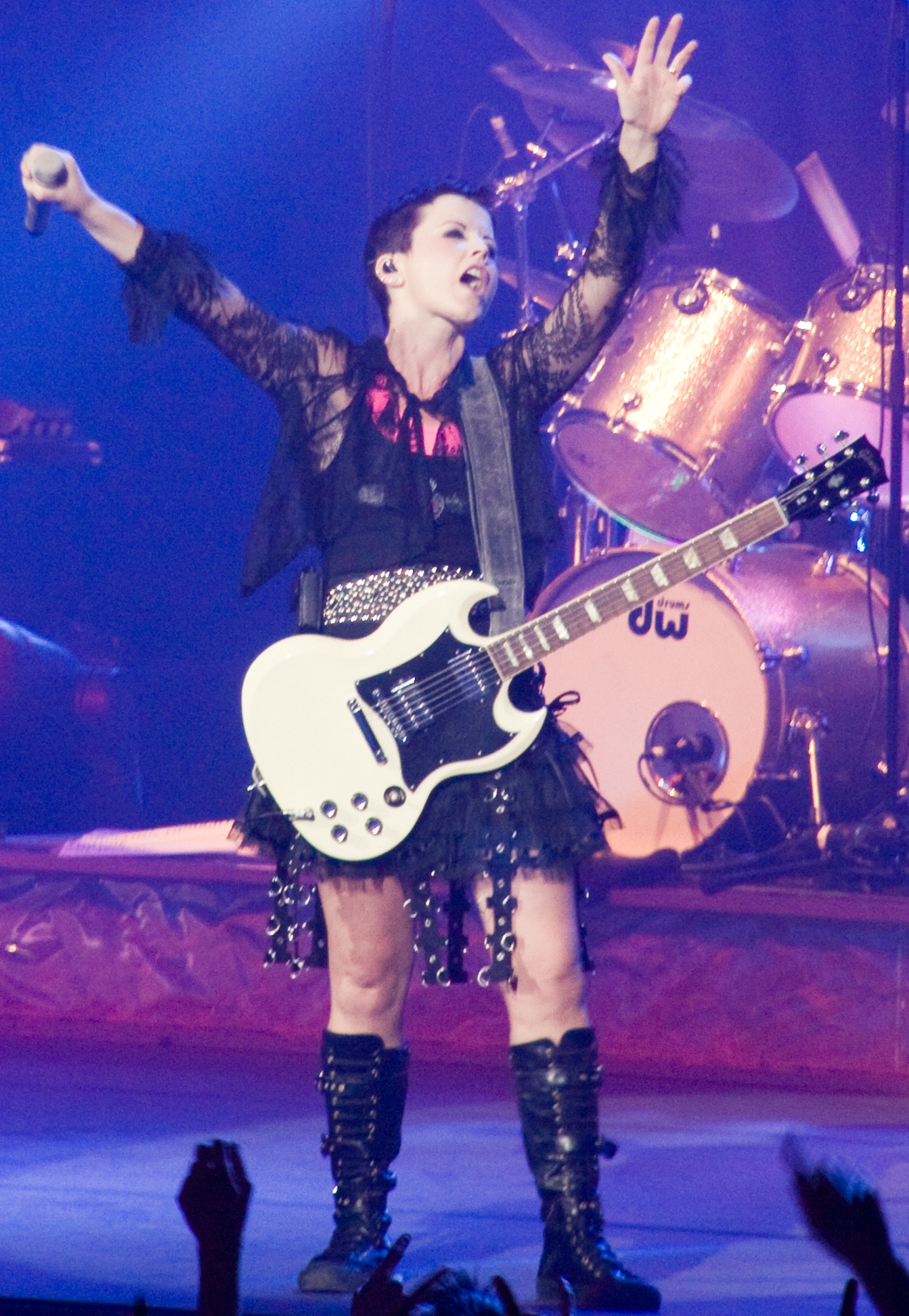 Dolores O'Riordan during a concert with Tha Cranberries on May 31, 2010.